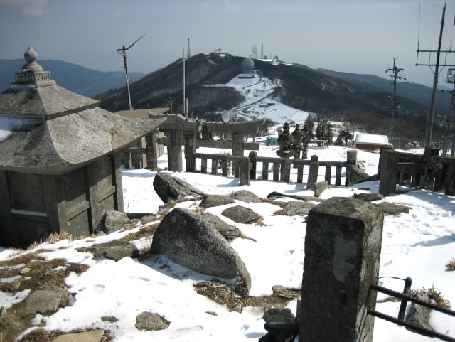 At the peak of Mt.Sefuri (1,055m), which is located on the border of Fukuoka, Fukuoka Prefeture and Kanzaki, Saga Prefeture.